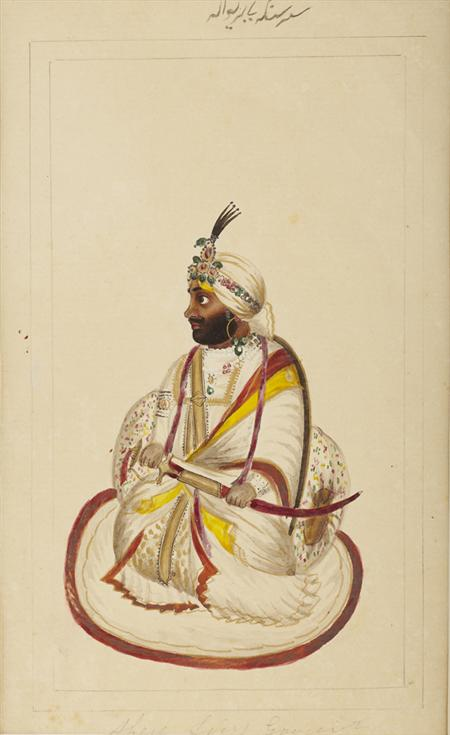 Sher Singh Attariwalla seated adopting a martial stance.